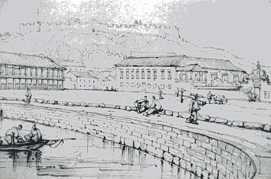 The Elliots' house in the San Francisco Green, Macao.